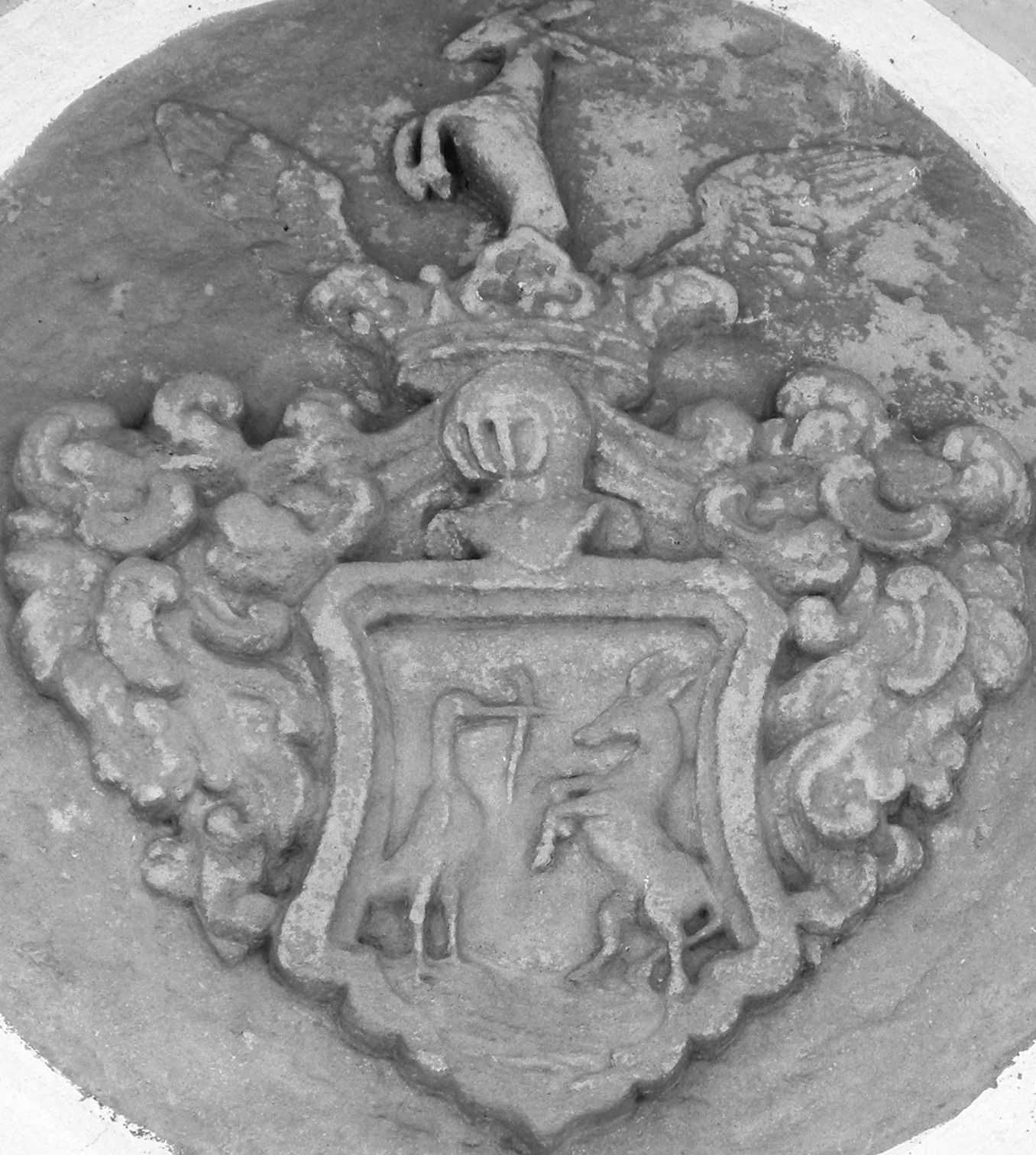 Coat of arms of Zamaróczy / Szamaróczy / Zamarovský / Somarovsky family (probably of Florian Zamaroczy). Tympanum of manor house in Zamarovce, Slovakia. Copy of the relief is stored in Castle Trenčín.